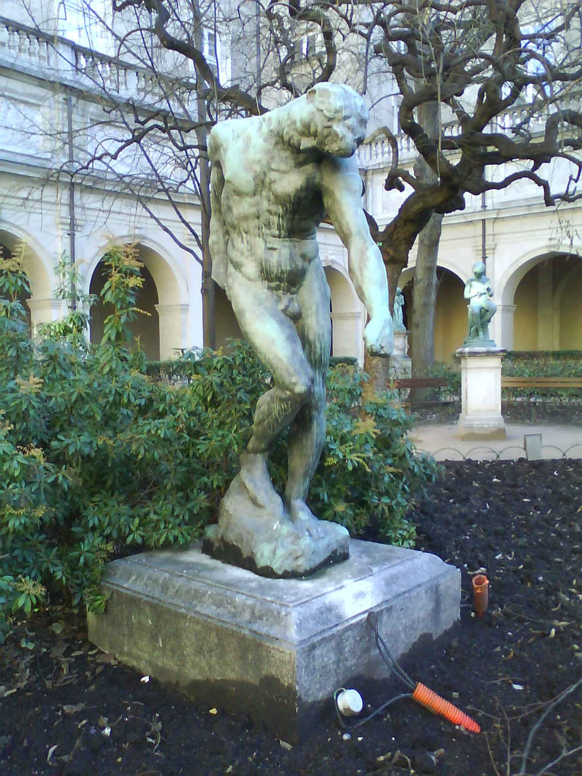 The Shadow